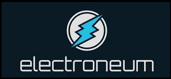 Electroneum image